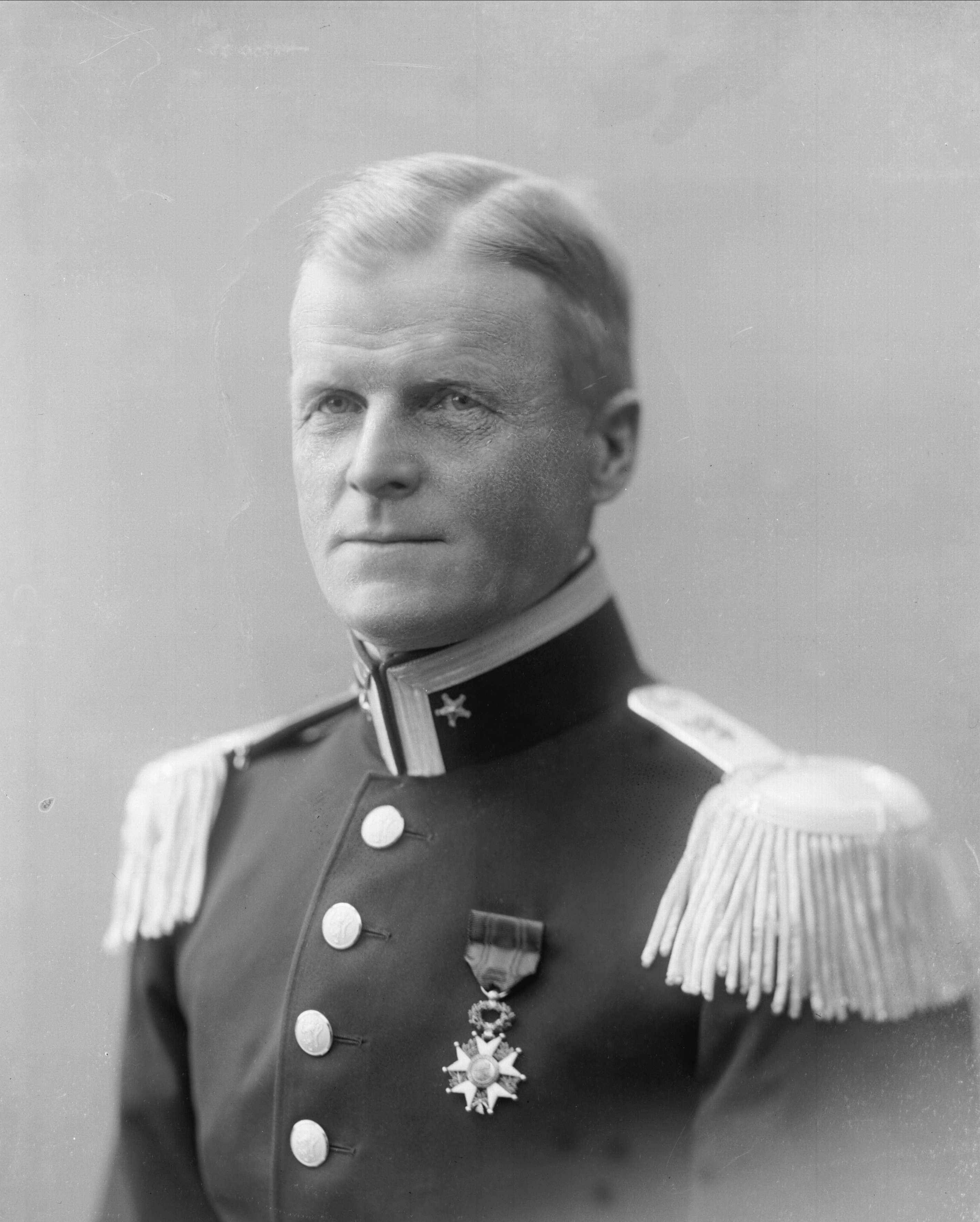 Finn Qvale (1873–1955), norwegian officer and sports official (Nordic skiing). Cropped version.